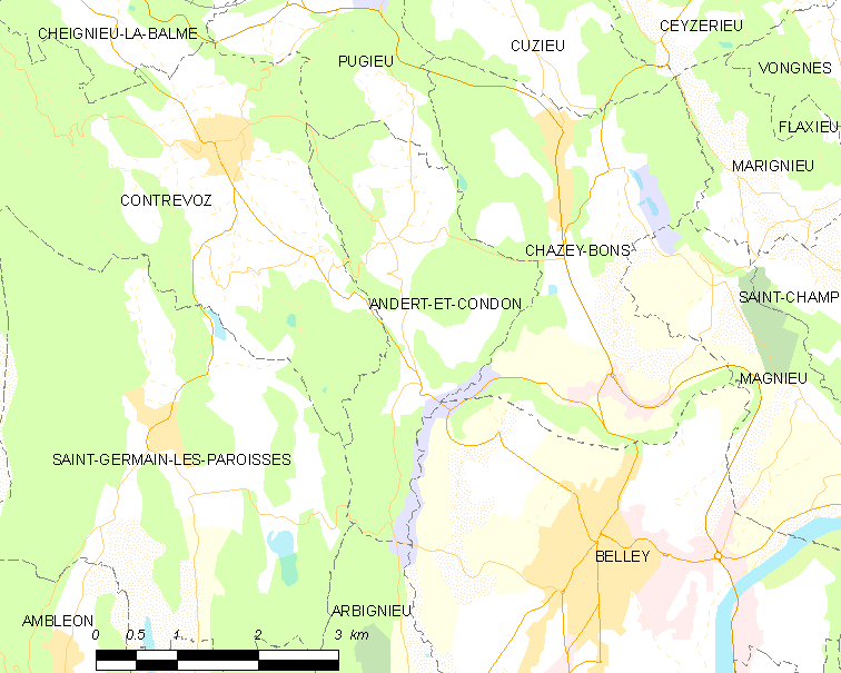 Map of French commune: Andert-et-Condon Map commune FR insee code 01009.png